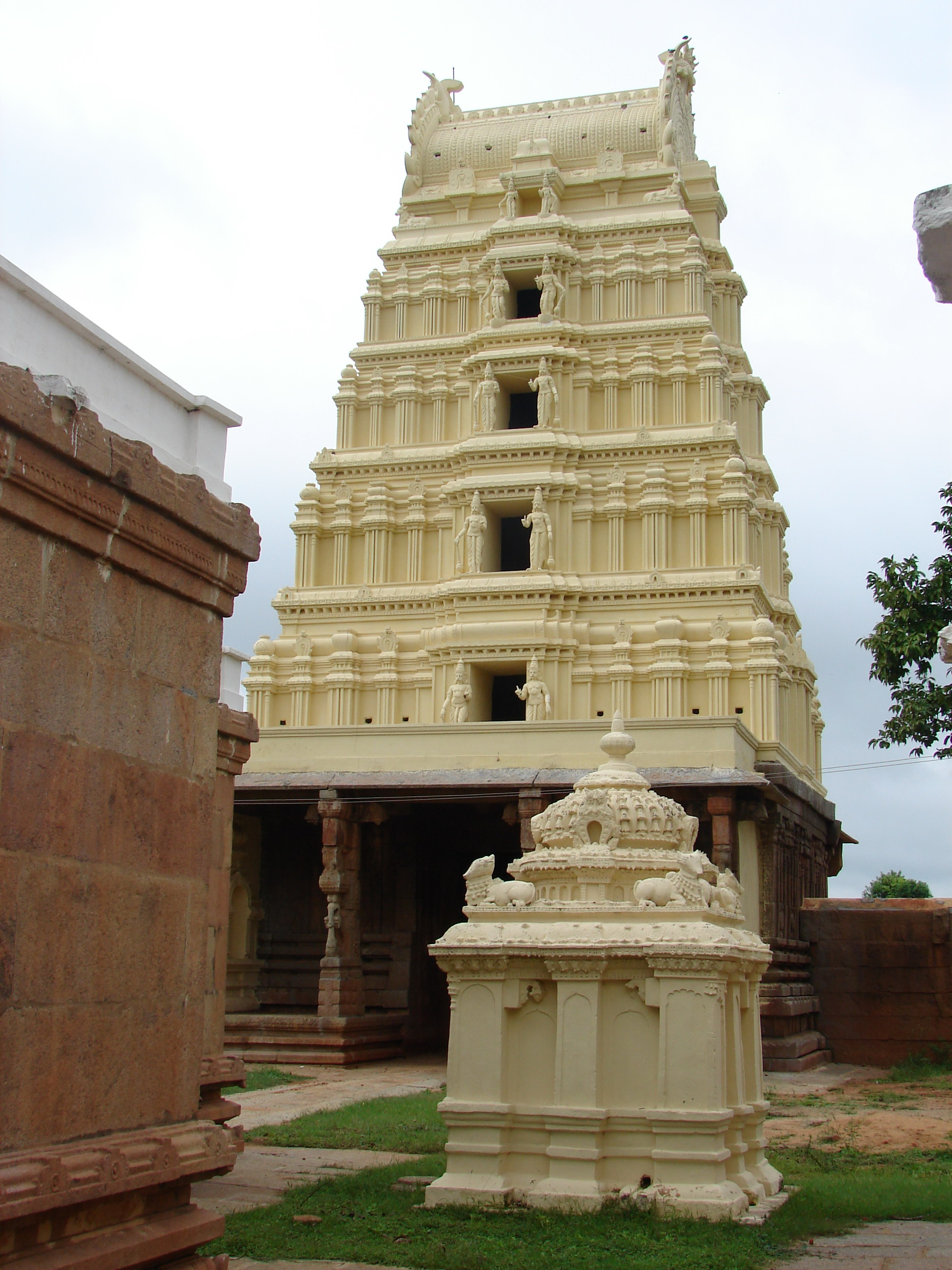 This photograph were taken at the Someshwara temple in Magadi, Ramanagara district, Karnataka state, India. The temple was built by Mummadi Kempavira Gowda around 1712 A.D.